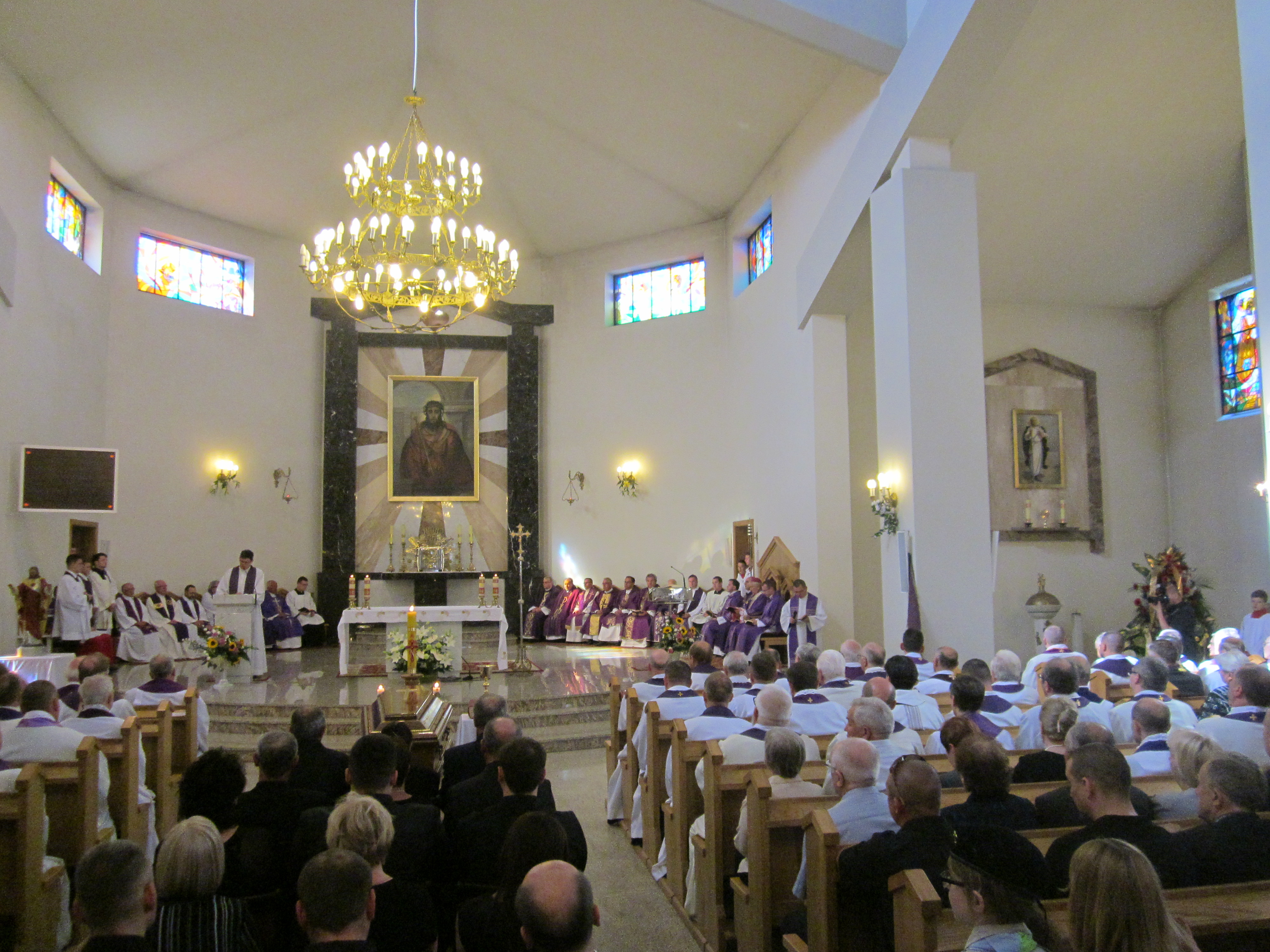 Mońki June 5, 2015. Funeral Mass prelate Henryk Miron in Saint Albert Chmielowski church